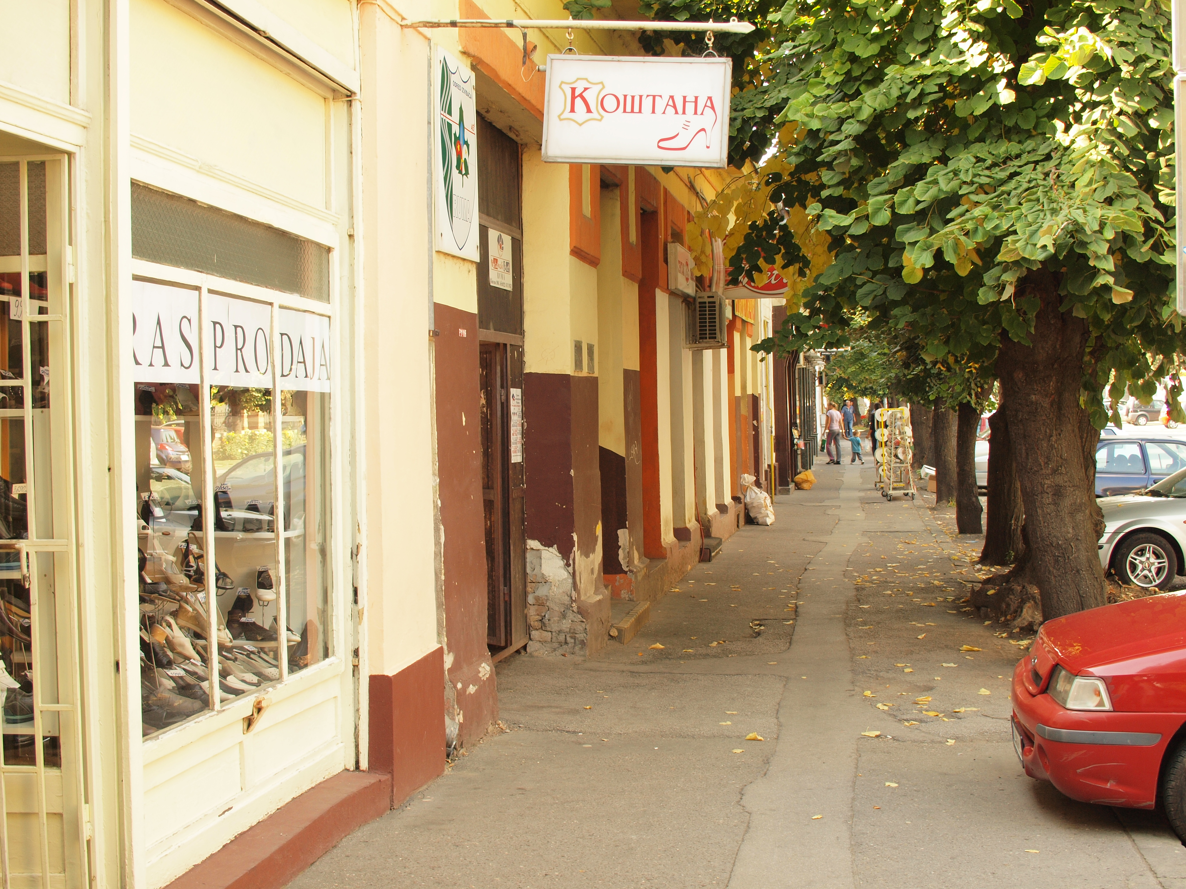 Ruma downtown shopping